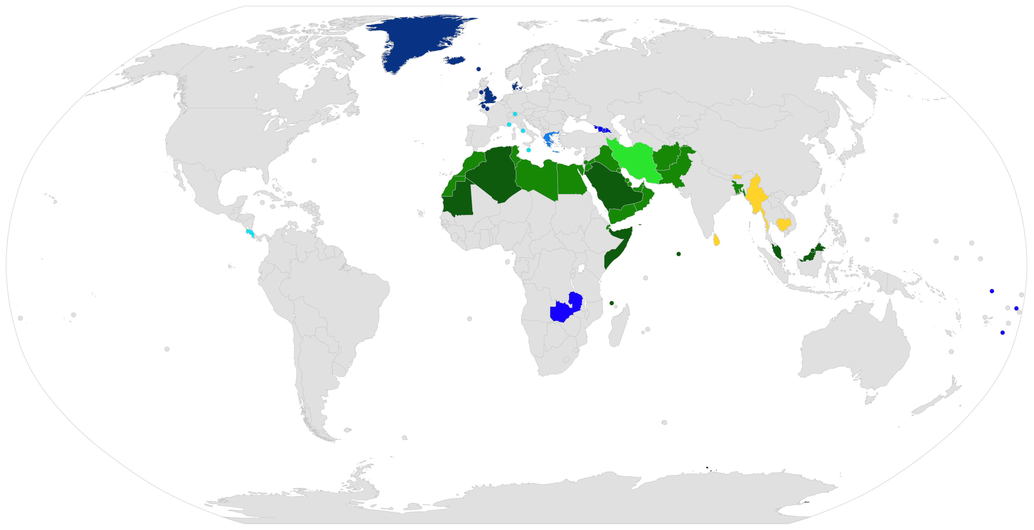 Countries with state religions: Christianity Islam Buddhism